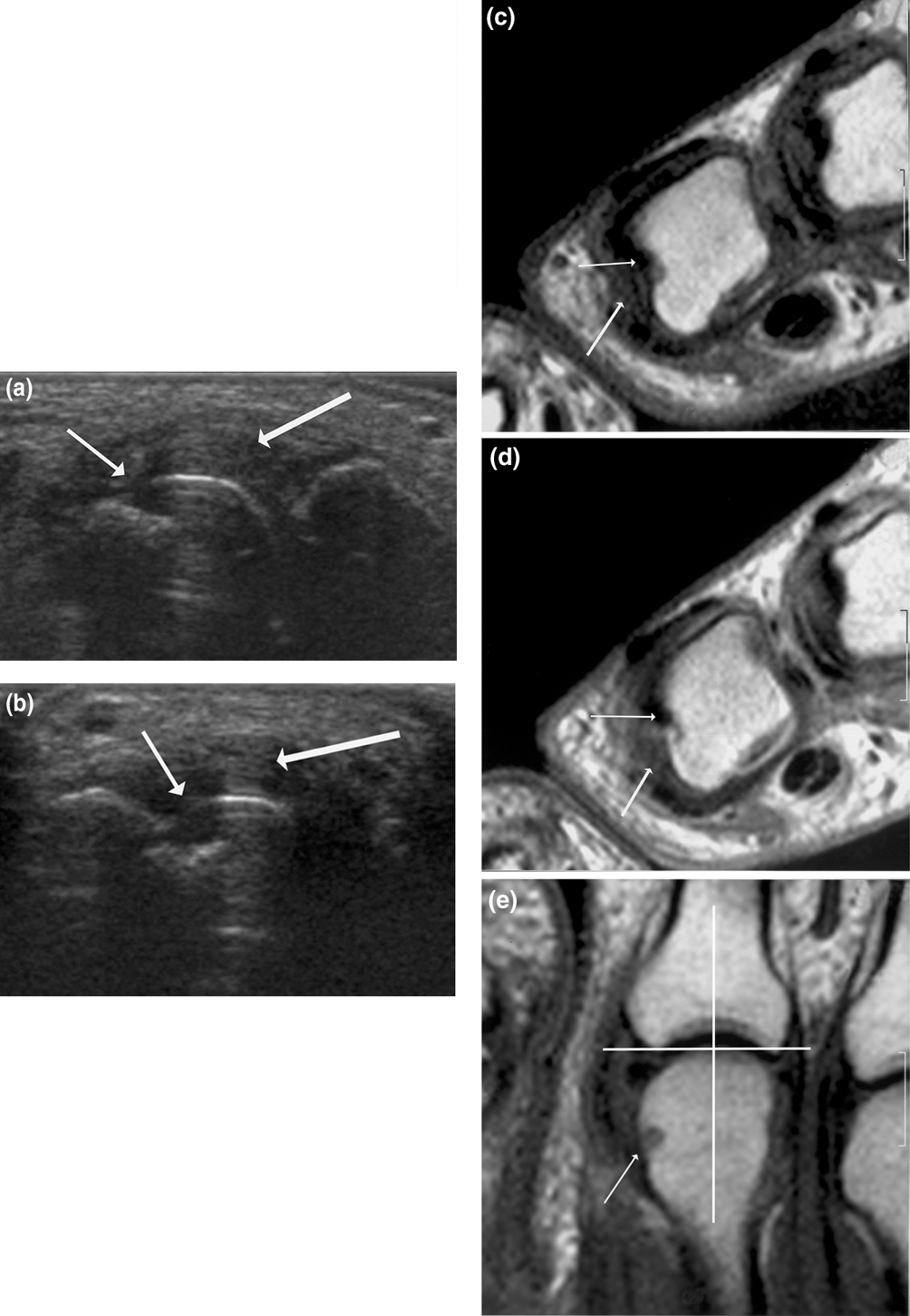 Signs of destruction and inflammation on ultrasonography and MRI in second metacarpophalangeal joint: established RA. Thin arrows indicate an erosive change; thick arrows indicate synovitis. Ultrasonography in the (a) longitudinal and (b) the transverse planes shows both signs of destruction (grade 2) and inflammation (grade 3). Axial T1-weighted magnetic resonance images were obtained (c) before and (d) after contrast administration (grade 3 synovitis). Additionally, a coronal T1-weighted magnetic resonance image (e) before contrast administration visualizes the same bone erosion as shown in panels c and d. The coronal magnetic resonance image of the second metacarpophalangeal joint (panel e) is additionally covered by a grid illustrating division of the assessed joints into quadrants: proximal radial, proximal ulnar, distal radial and distal ulnar. MRI, magnetic resonance imaging; RA, rheumatoid arthritis.